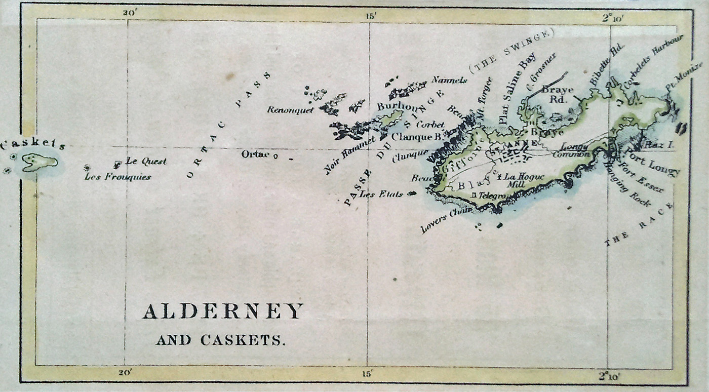 map of Alderney (and Casquets), Channel Islands, British Isles